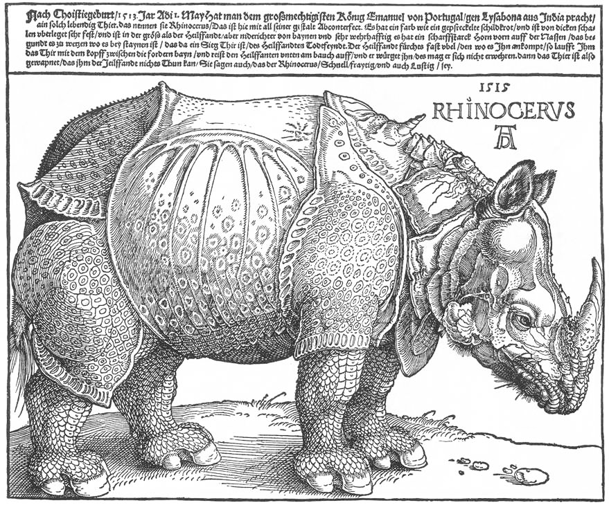 Print by Albrecht Dürer of a rhinoceros, with textual description.